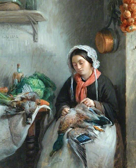 A Cook Plucking a Wild Duck